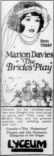 Newspaper advertisement for the American drama film The Bride's Play (1922) with Marion Davies, on page 11 of the February 1, 1922 Duluth Herald.